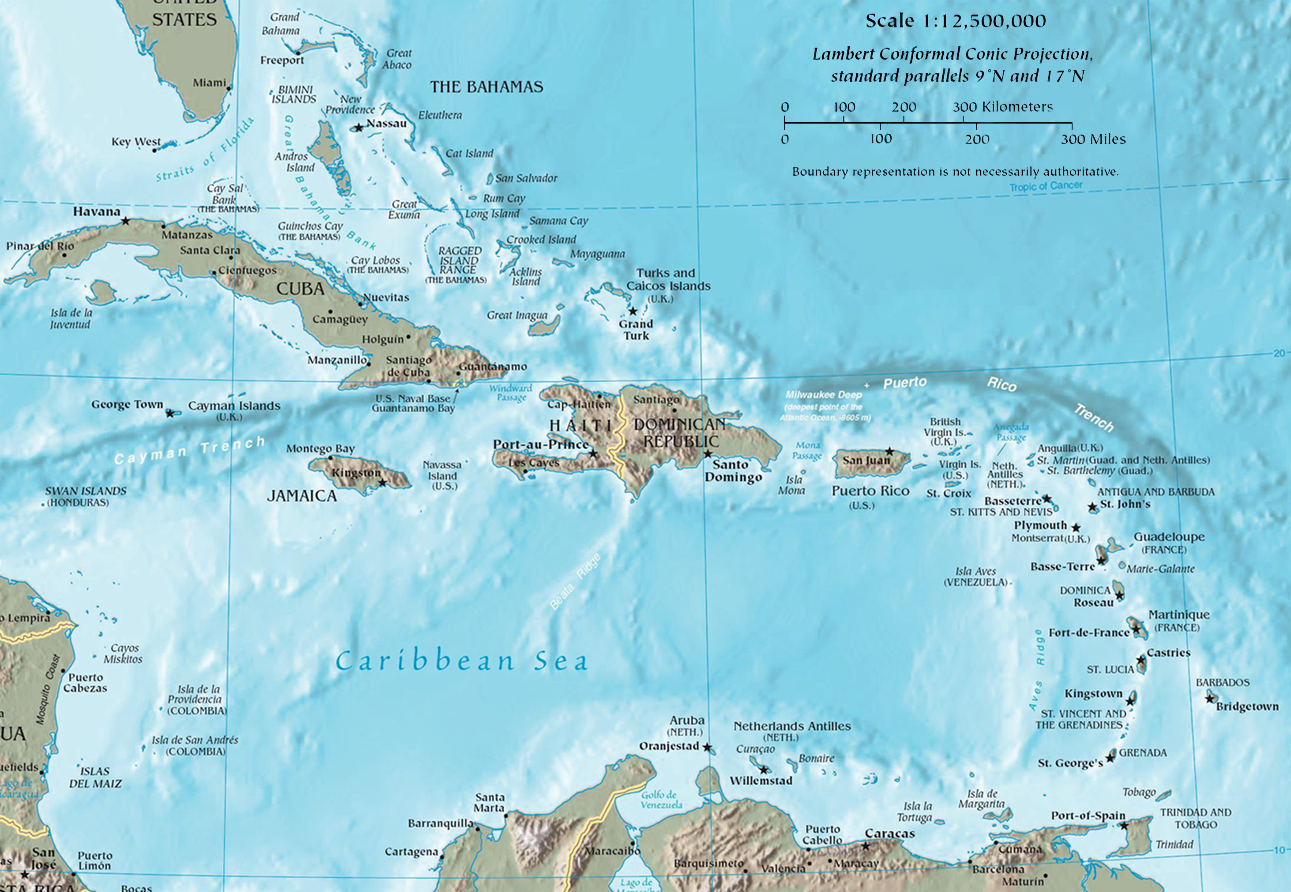 Map of the Caribbean by the CIA World Factbook